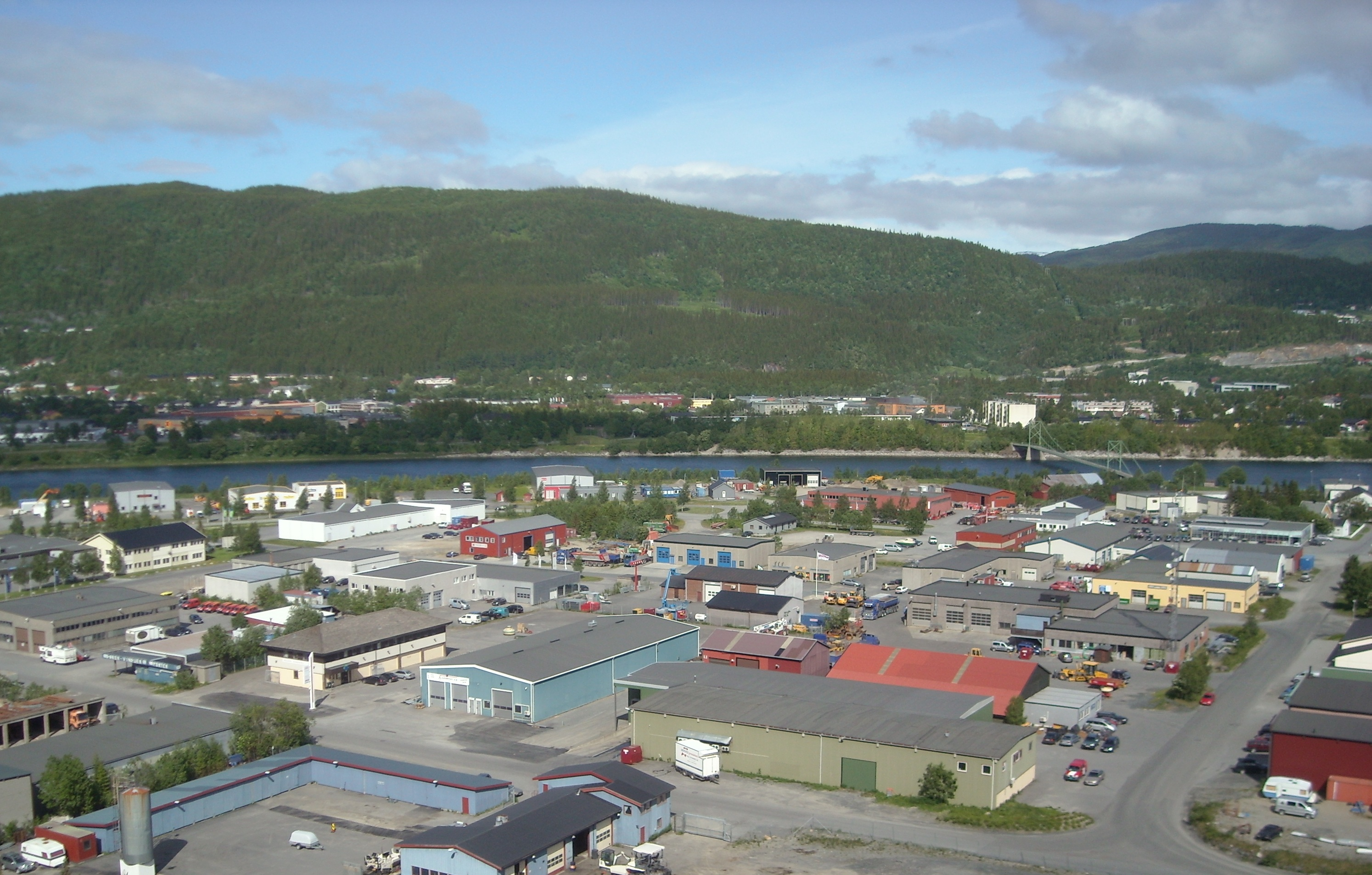 Øya, Mosjøen, Norway.